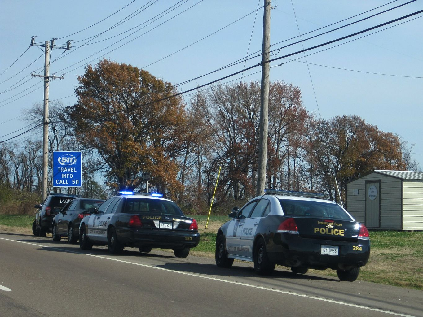 Police traffic stop Millington TN